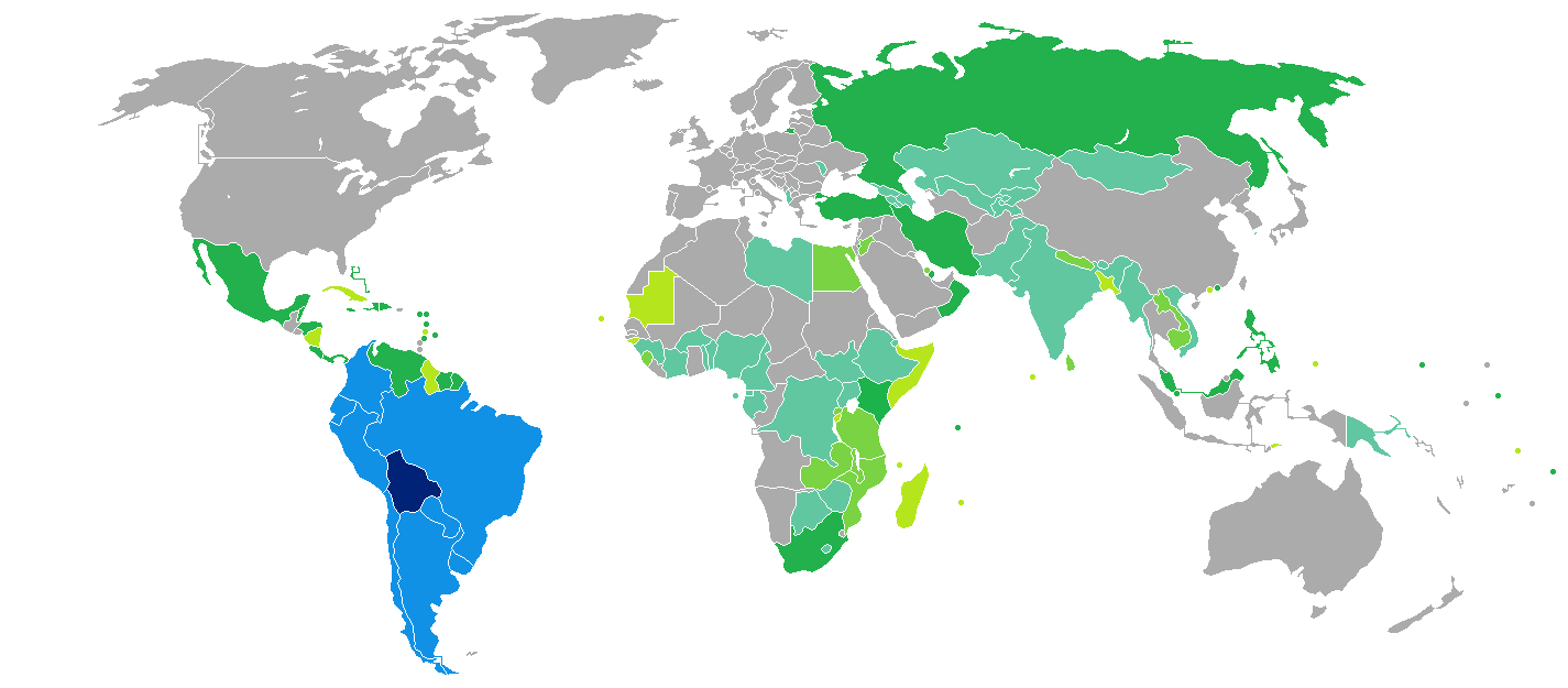 Visa requirements for Bolivian citizens Bolivia ID card travel Visa free access Visa on arrival eVisa Visa available both on arrival or online Visa required